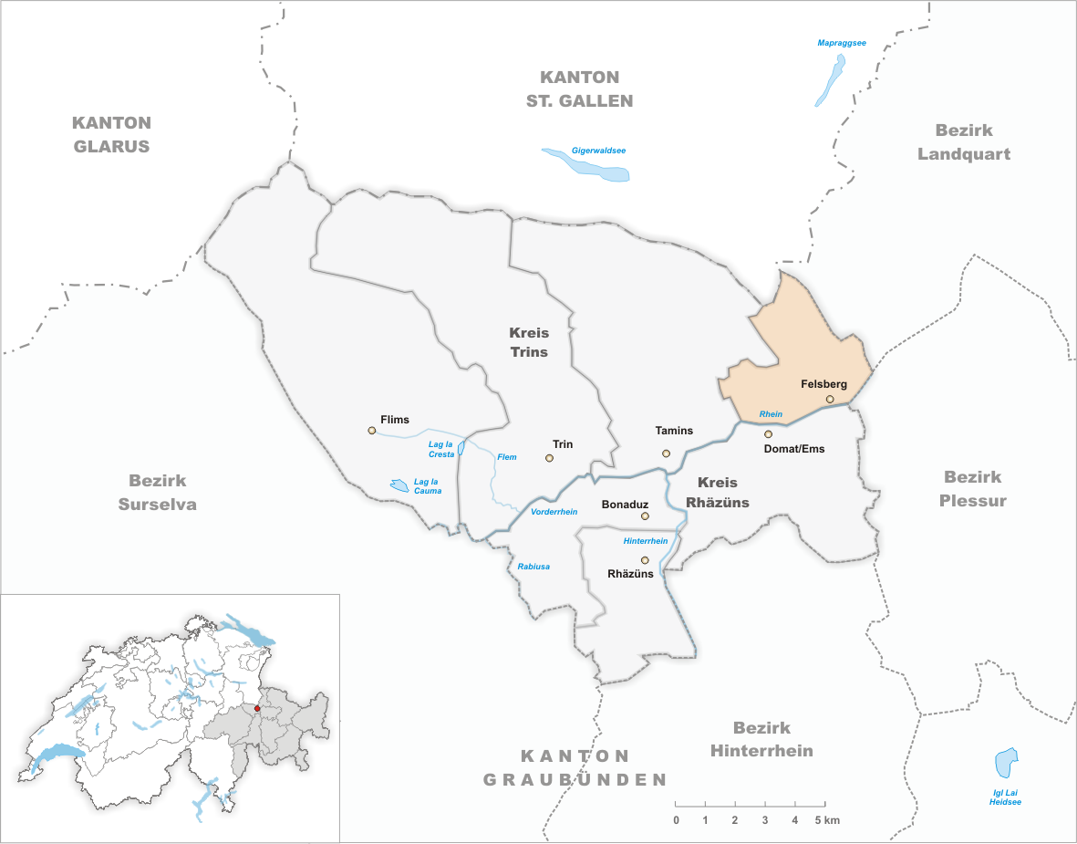 Municipality Felsberg